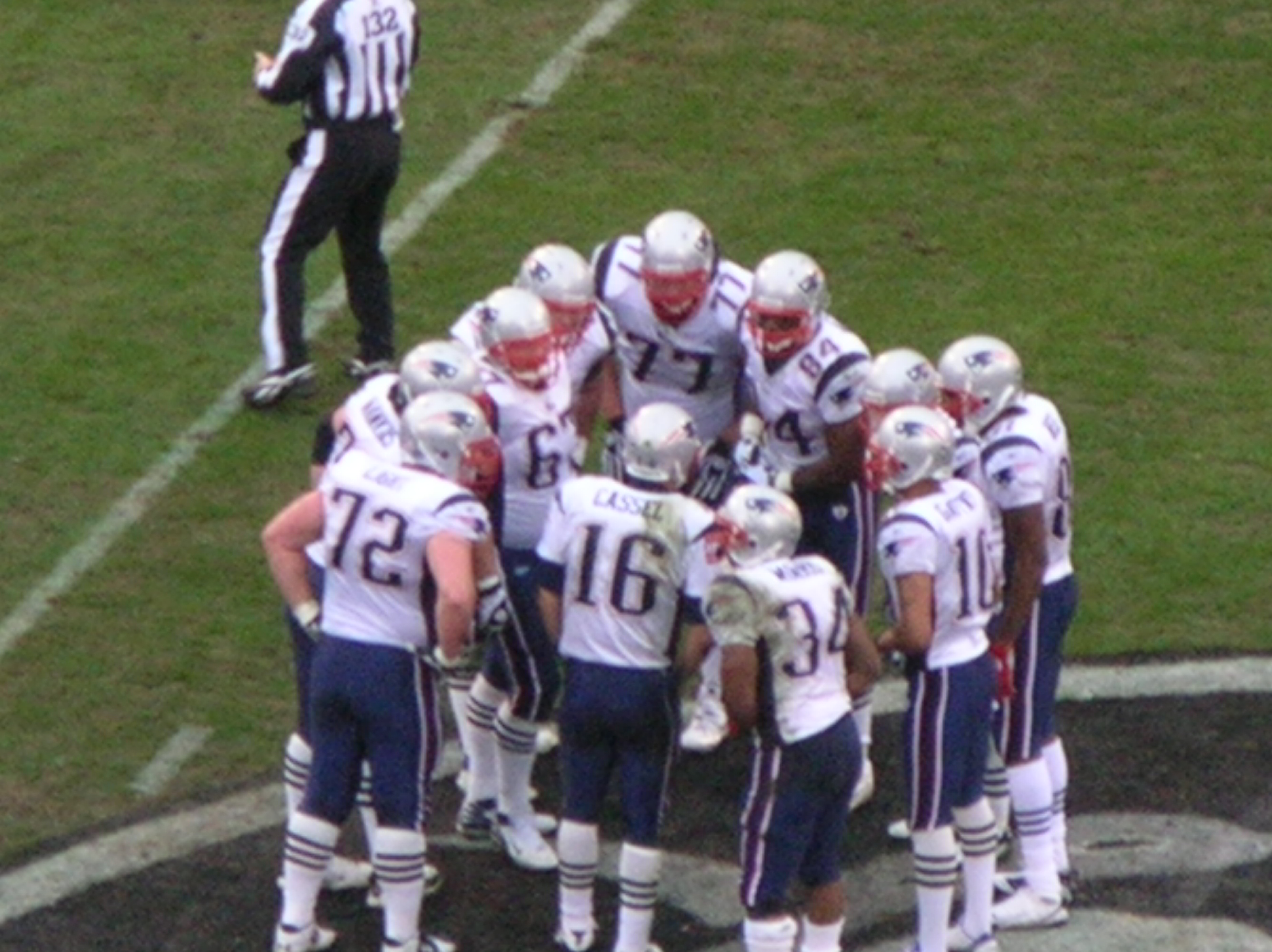 The New England Patriots in the huddle during an away game against the Oakland Raiders. The Patriots won 49-26.